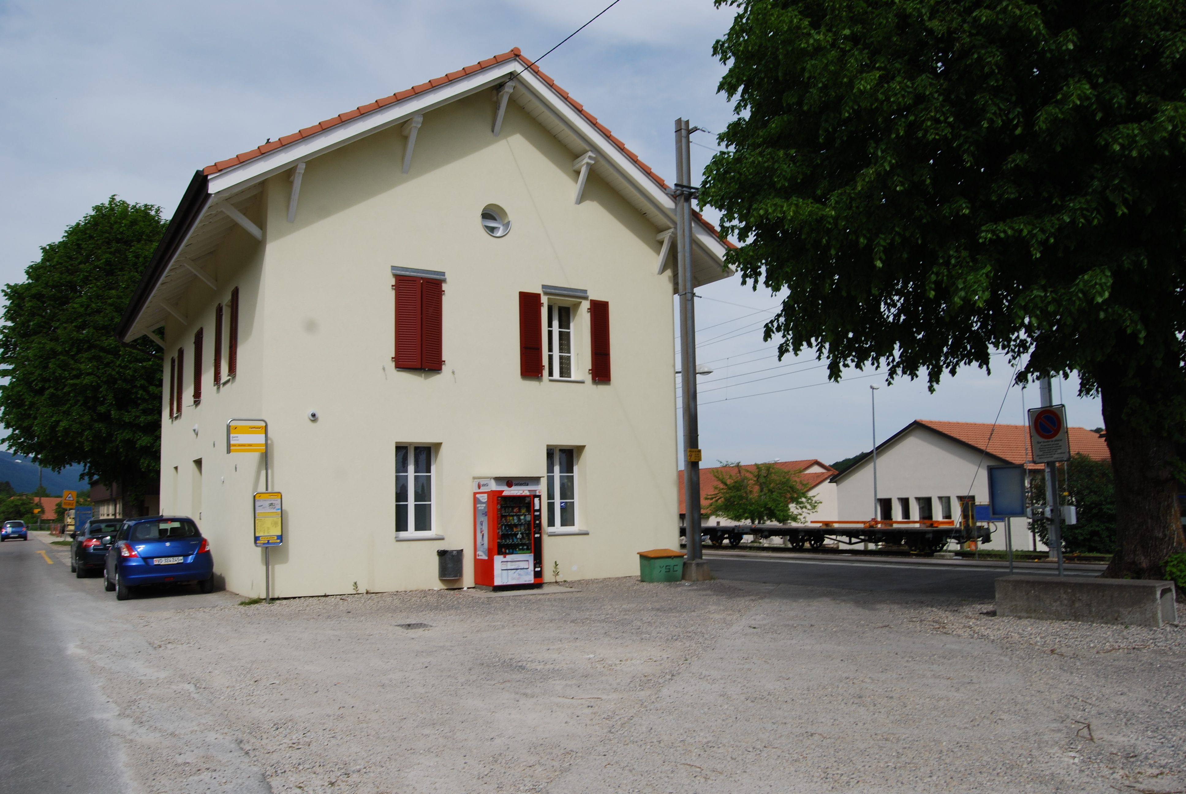 Trainstation of Baulmes, Baulmes, canton of Vaud, Switzerland